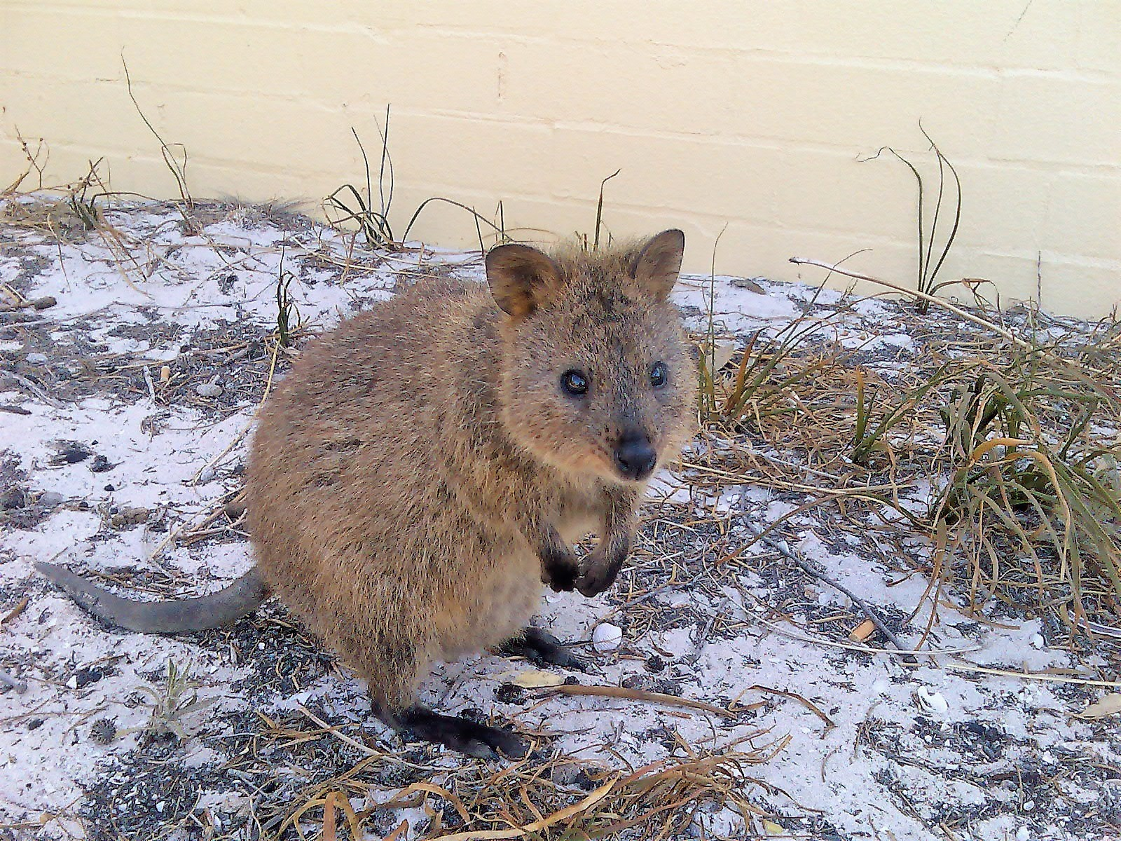 Quokka on Rottnest Island WA Australia 2008